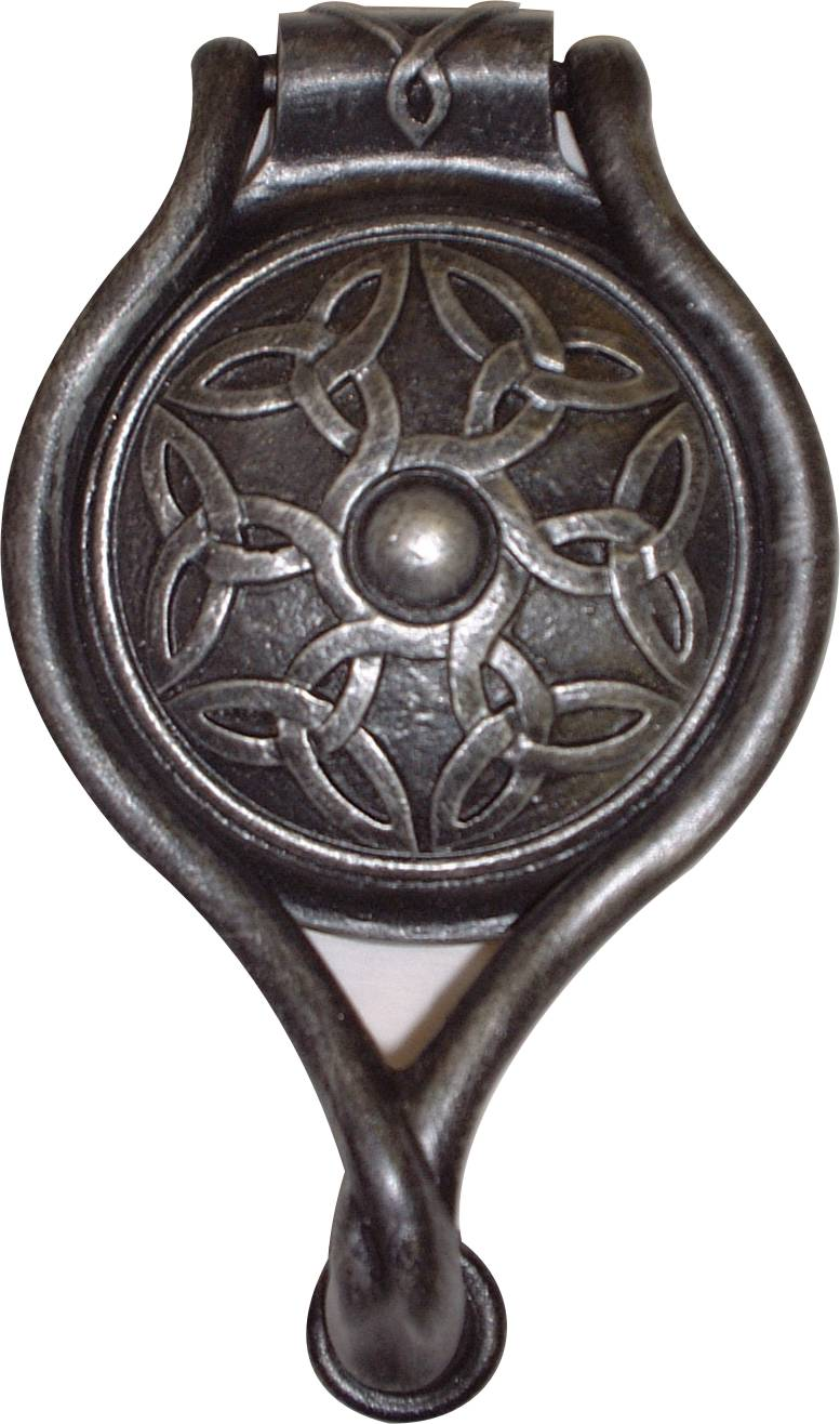 This is a cast iron door knocker designed, made and sold by Robin Lumley.